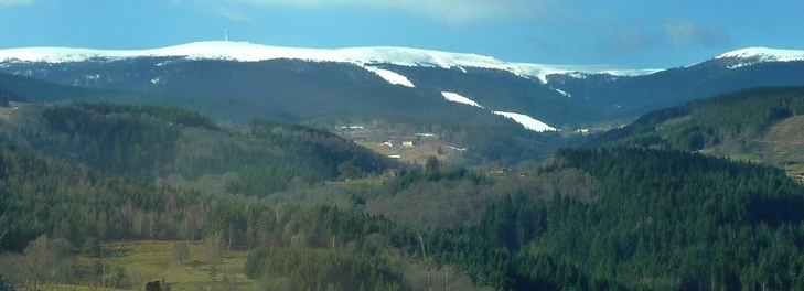 Pierre-sur-Haute top of Monts du Forez (France)